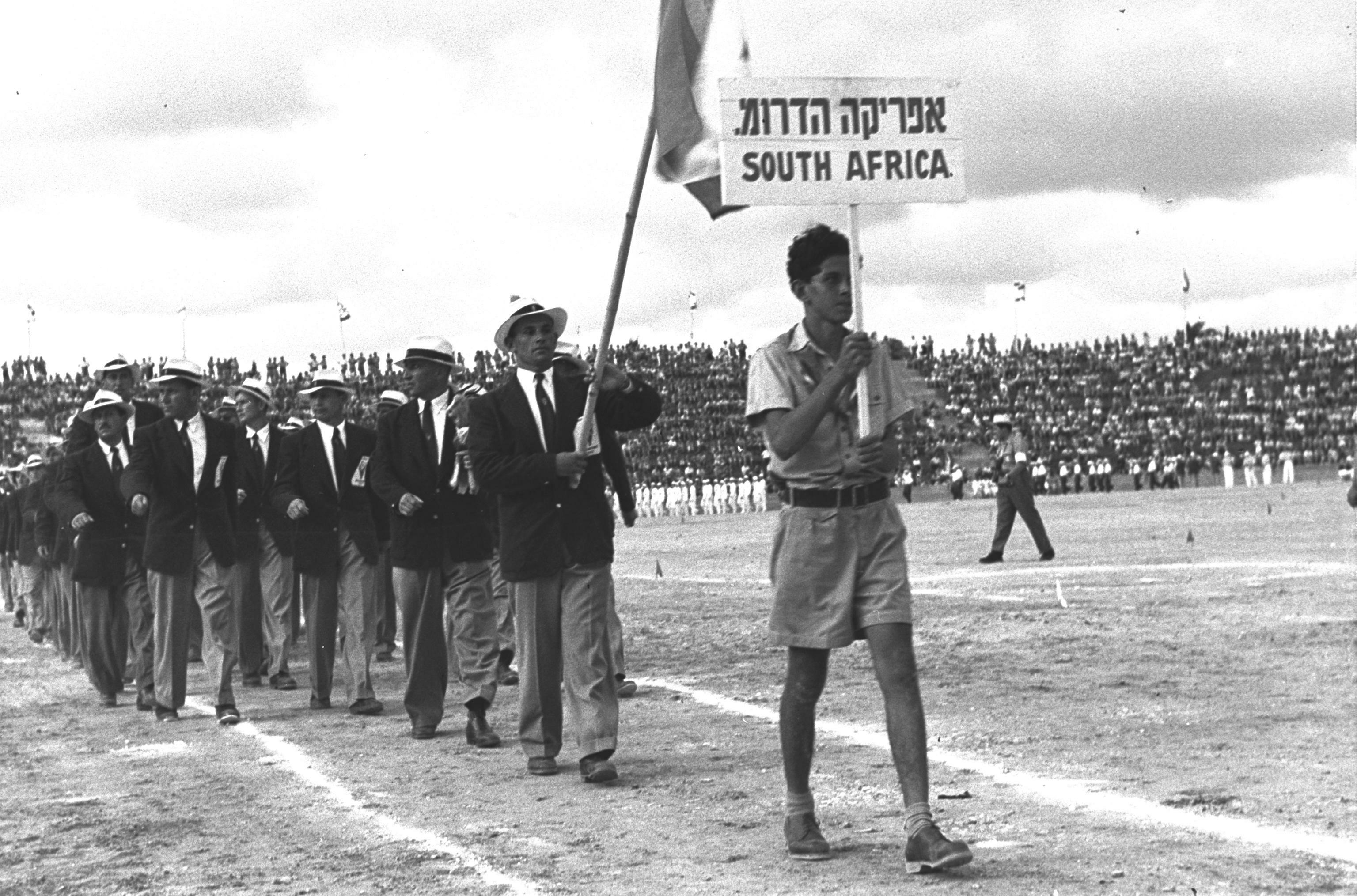 THE SOUTH AFRICAN DELEGATION TO THE 3RD "MACCABIA GAMES", HELD AT THE RAMAT GAN STADIUM, DURING THE OPENING CEREMONY.